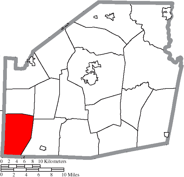 Map of the municipal and township boundaries of Highland County, Ohio, United States, as of the 2000 census, with the location of Clay Township highlighted. Township borders are shown only in unincorporated areas in order to differentiate incorporated and unincorporated areas more clearly.